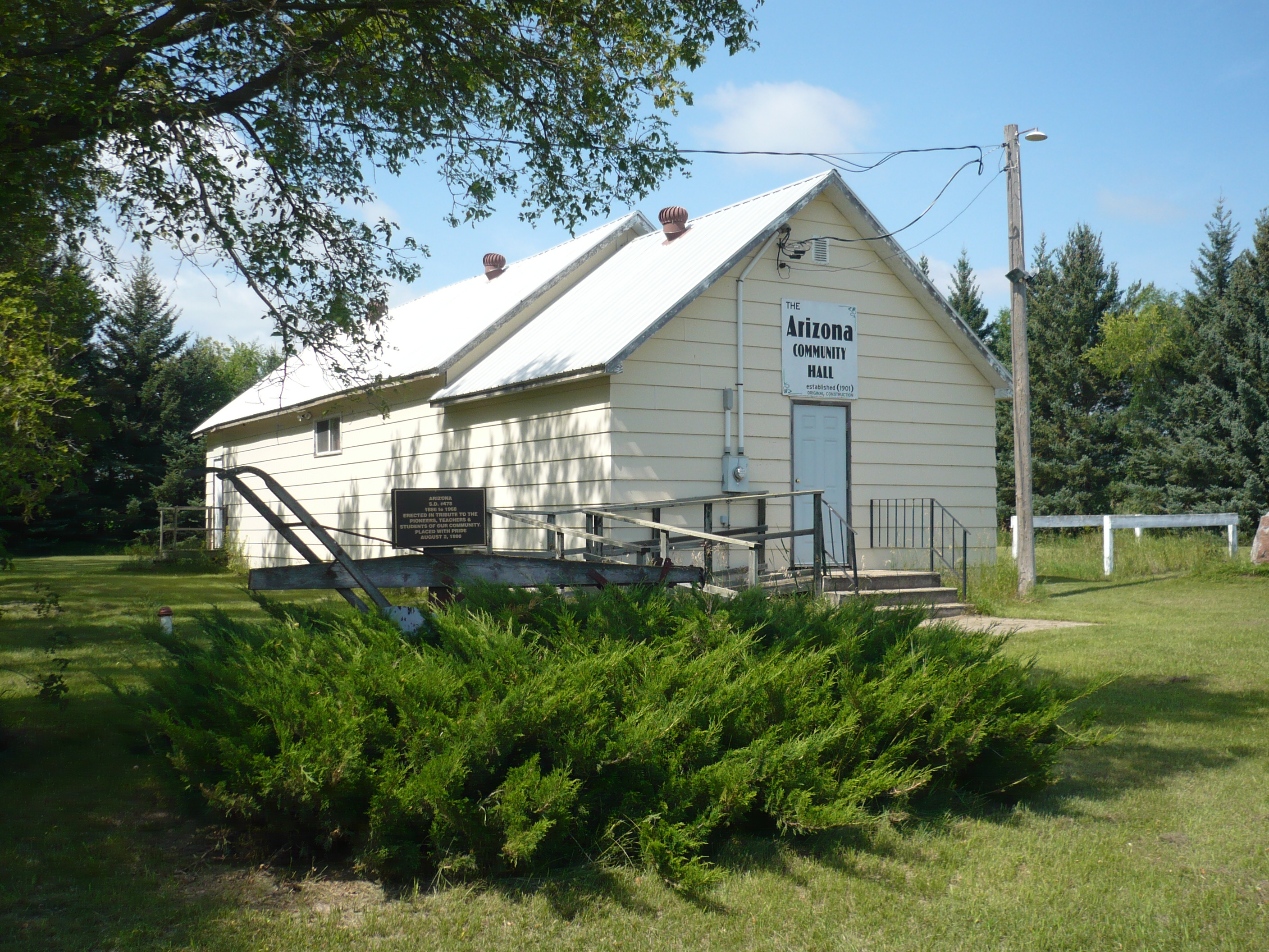 The community hall at Arizona, Manitoba and the monument commemorating the Arizona School District